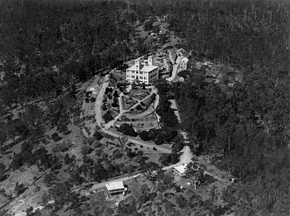 Brynhyfryd mansion at Blackstone, Ipswich, ca. 1930 This mansion was later demolished when it was considered unsafe because of mining beneath it. It was the home of Lewis Thomas MLA, who established coal mining in Queensland. The home was erected between 1889 and 1890. A stained glass window inside the home indicated that it was presented by the Blackstone Congregational Church. Lewis Thomas' only daughter Mary, married Thomas Bridson Cribb, jnr., in 1901. (Description supplied with photograph).